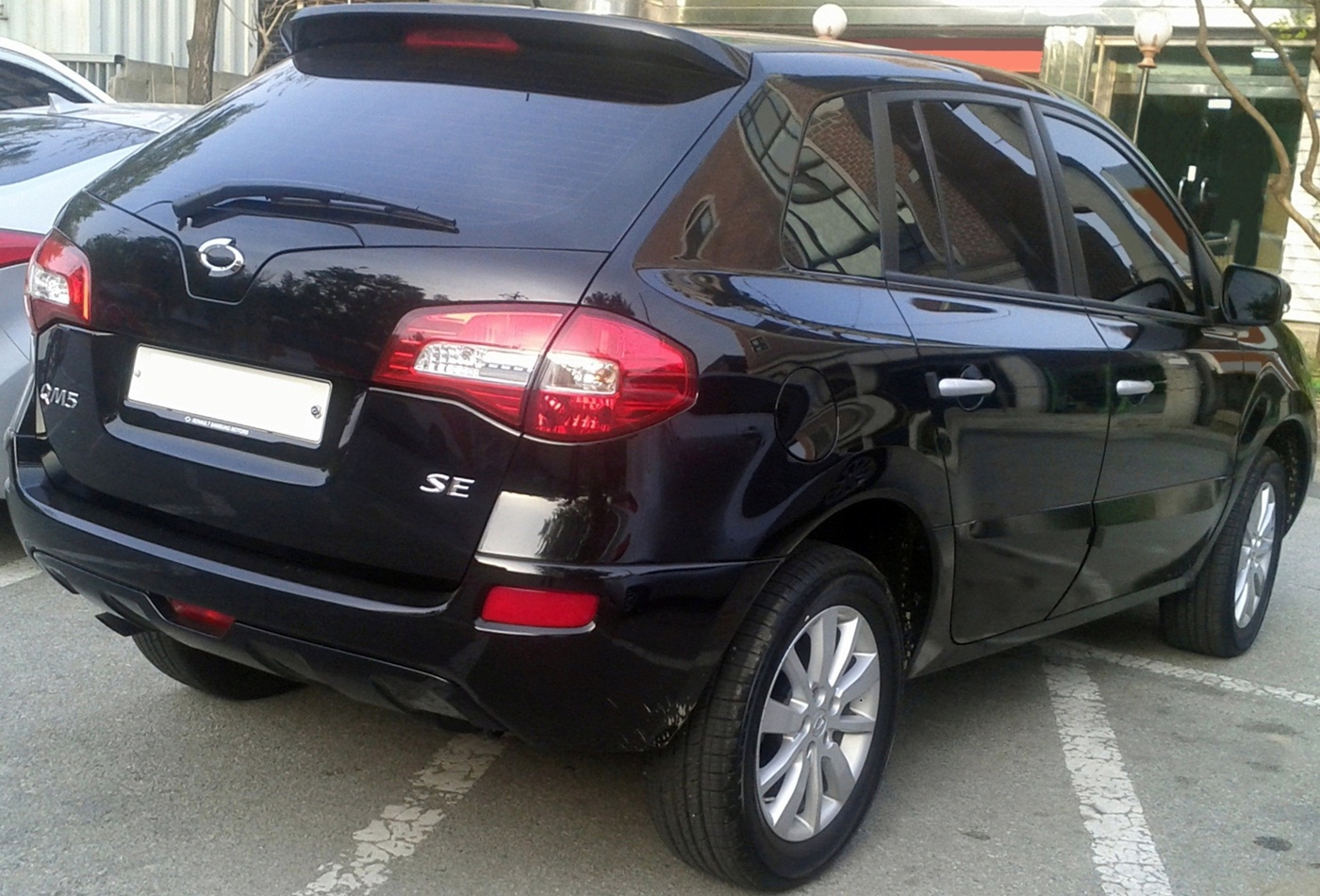 Renault Samsung QM5 Neo